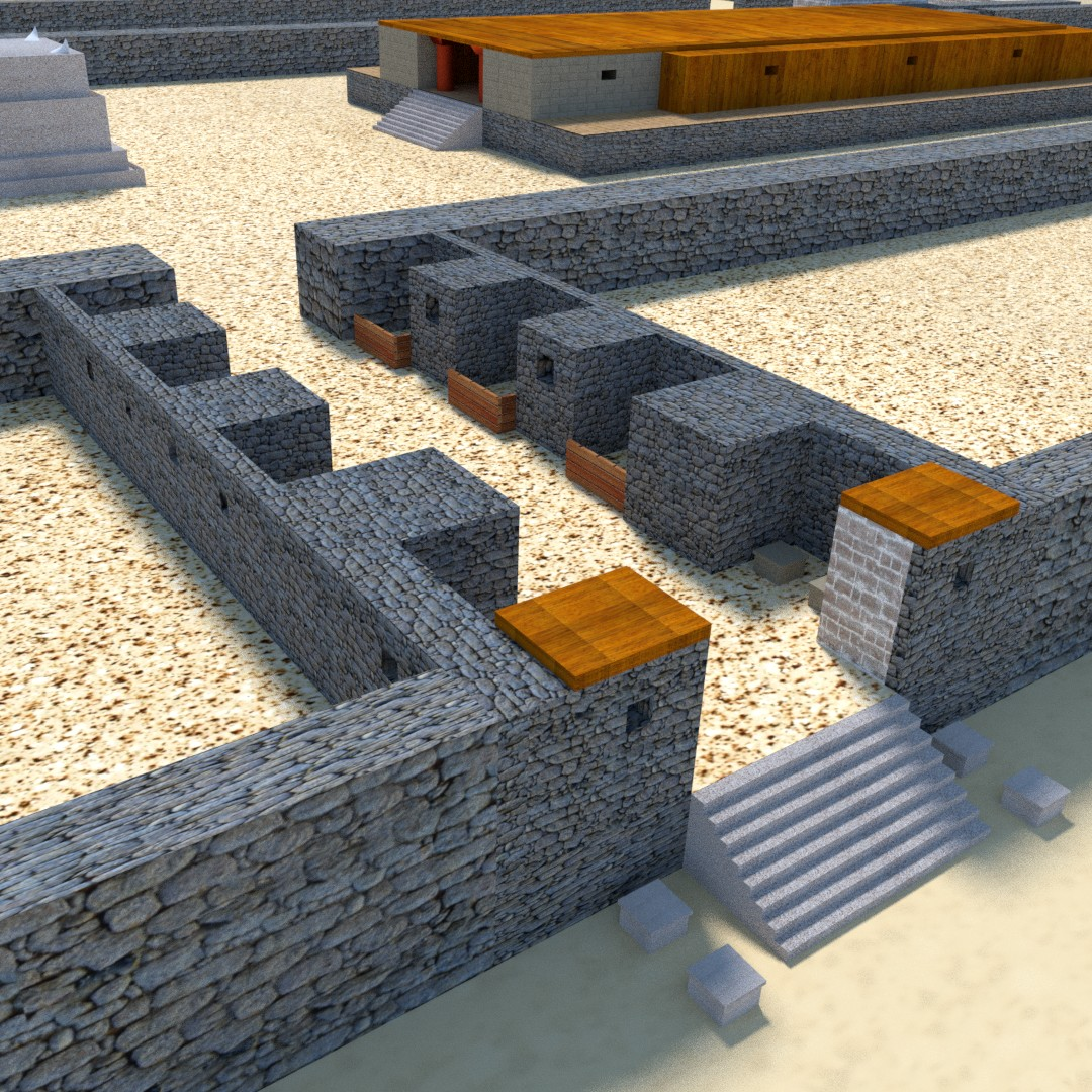 The northern gate to Ezekiel's Temple inner area